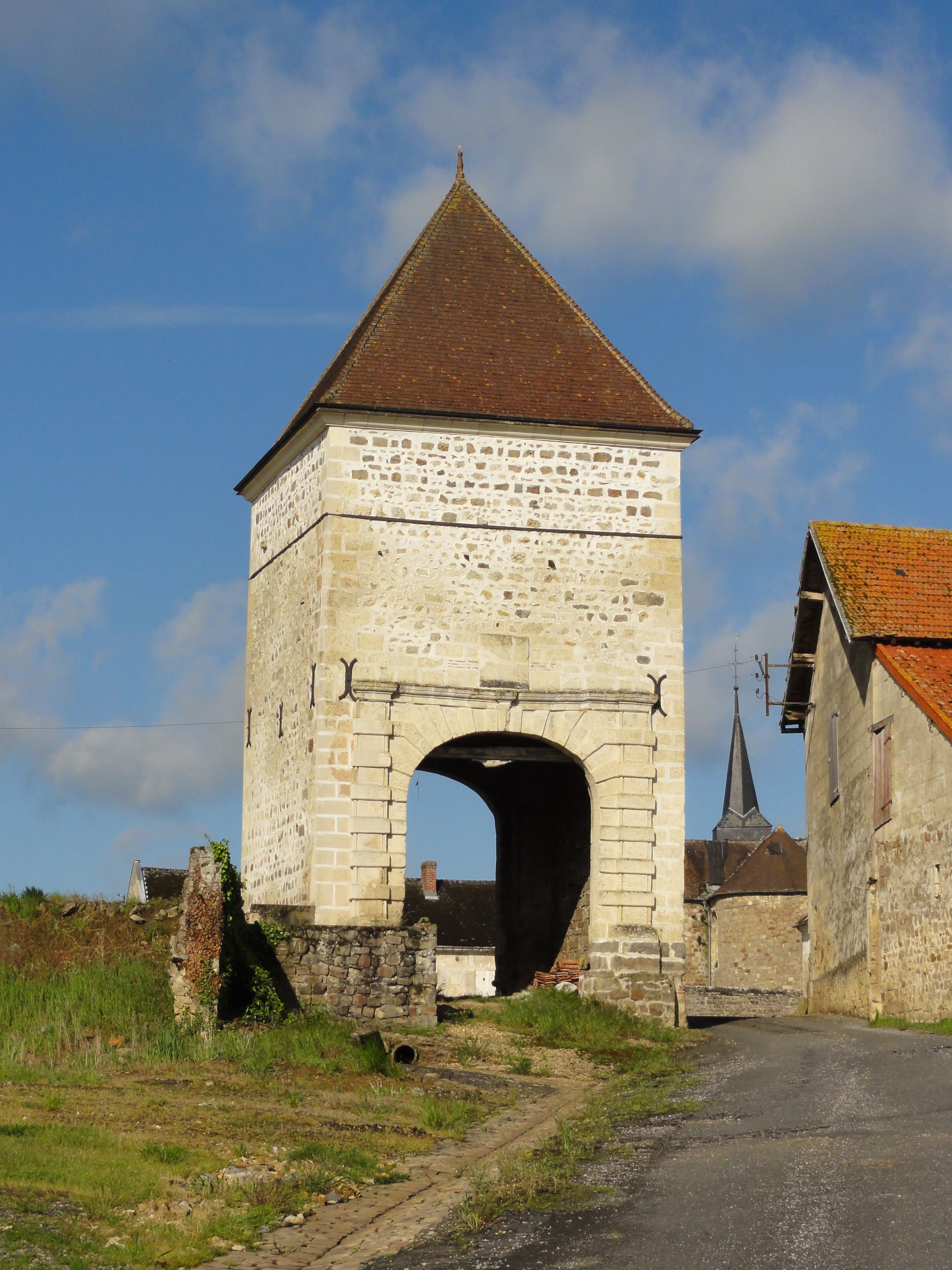 Bucy-lès-Cerny (Aisne) porche - pigeonnier